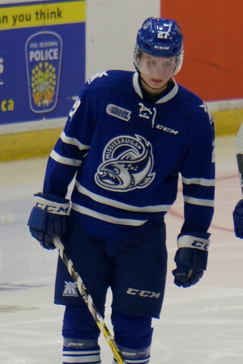 Jacob Moverare playing for the Mississauga Steelheads against the Erie Otters, February 17, 2017.